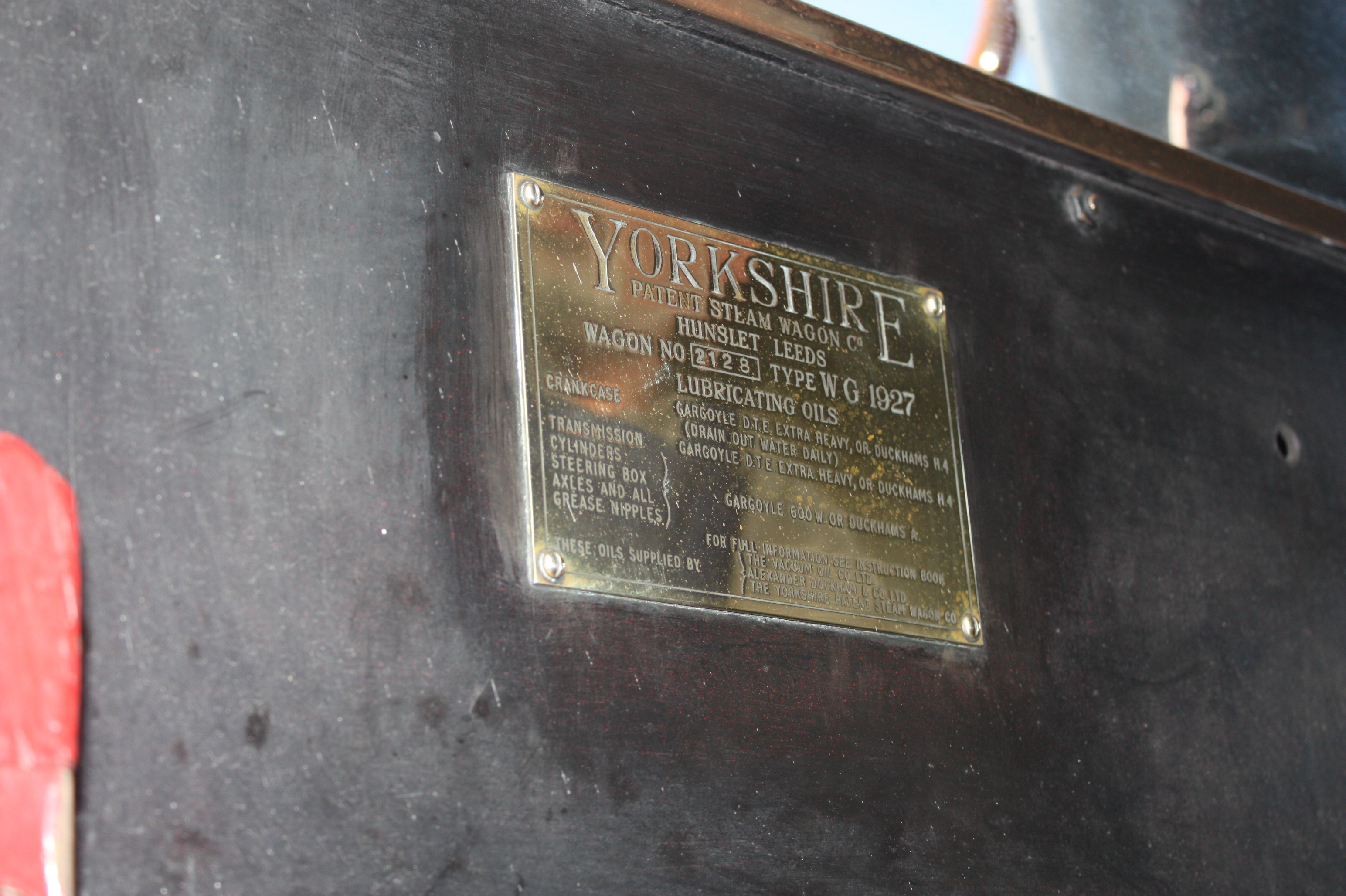 The brass Manufactures plate on a "Yorkshire Patent Steam Wagon"